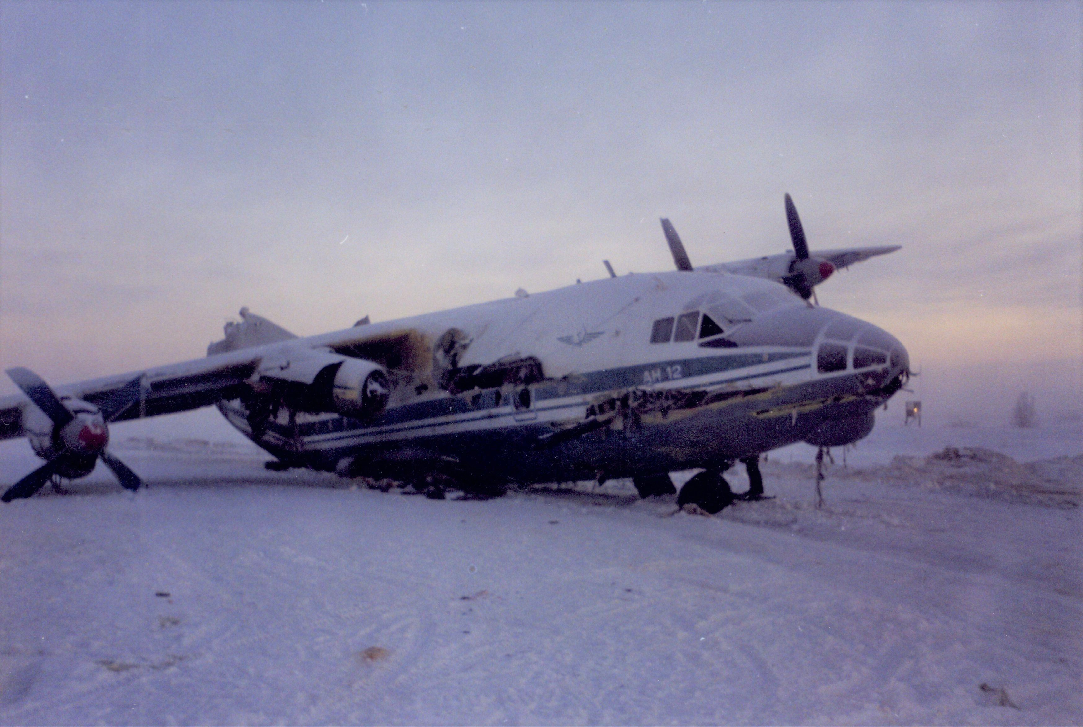 An-12 after the accident in Naryan-Mar on December 11, 1997